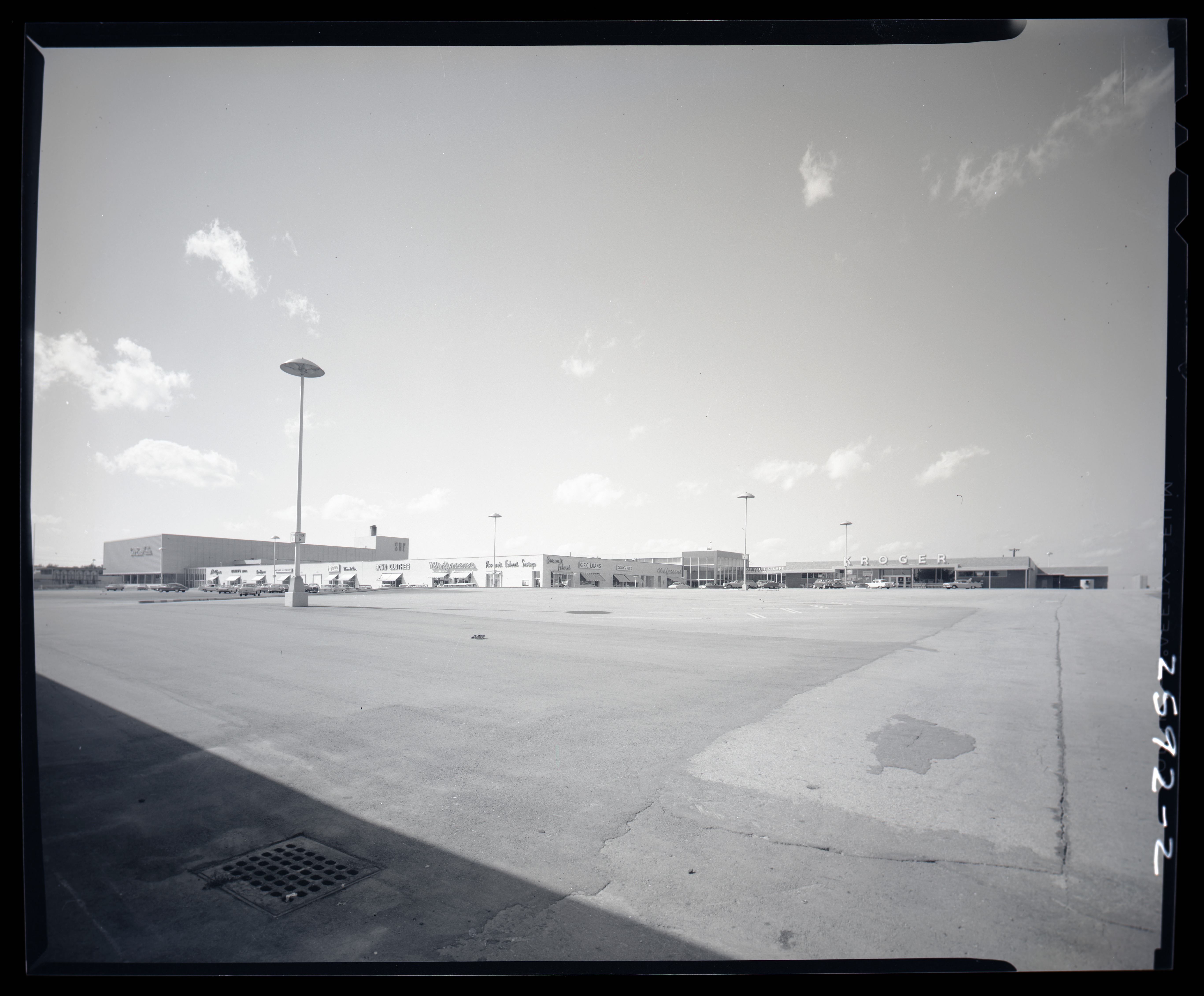 River Roads Mall. Negative by Mizuki, Henry T., 10/1962. Missouri History Museum Photograph and Prints collection. Mac Mizuki Photography Studio Collection. Image number: P0374-02592-02-4a